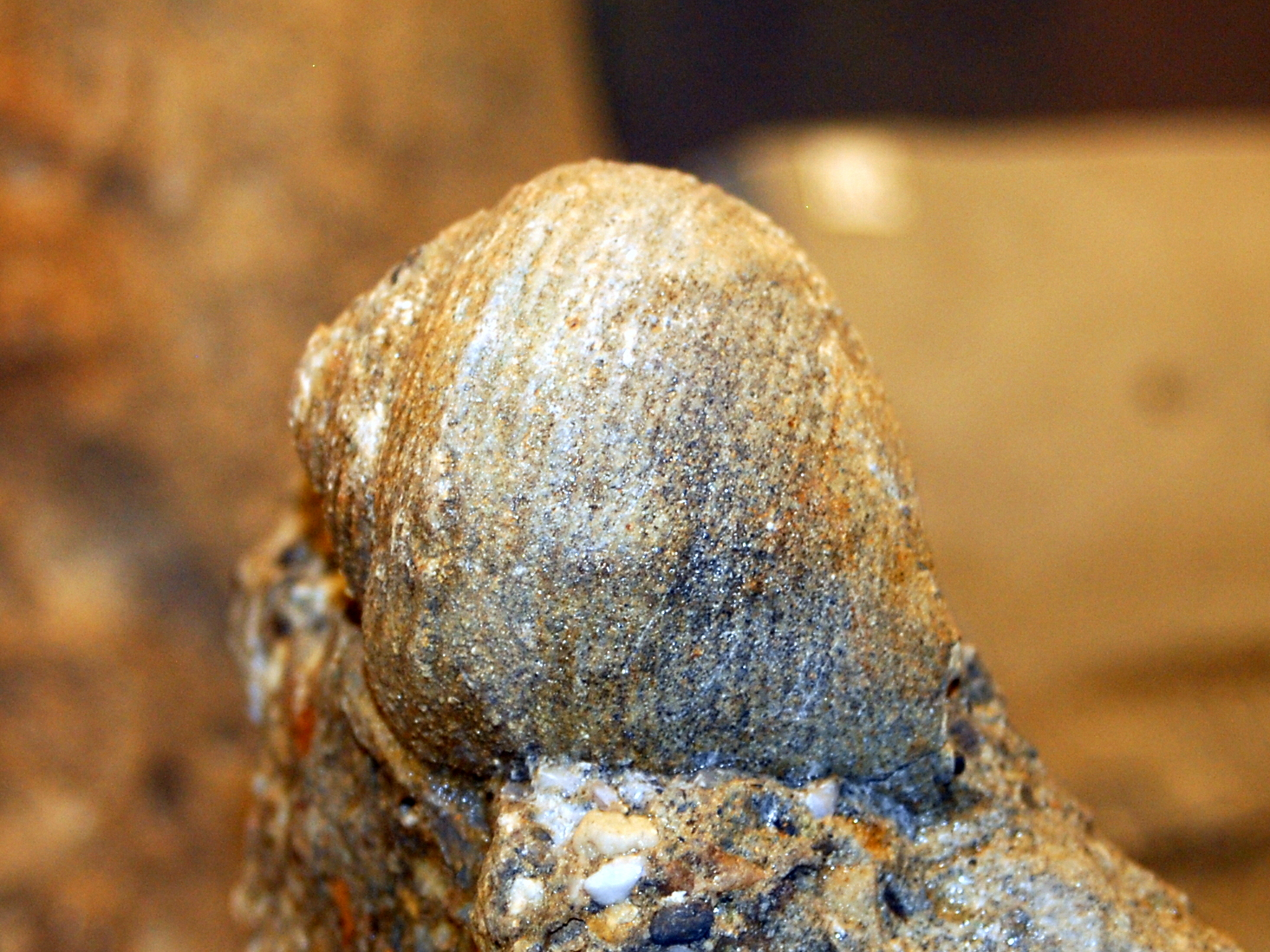 Fossil of Galeodea tauroglobosa from Italy (abt 10 ma), on display at the Museo Archeologico e di Scienze Naturali F. Eusebio, Alba, Italy